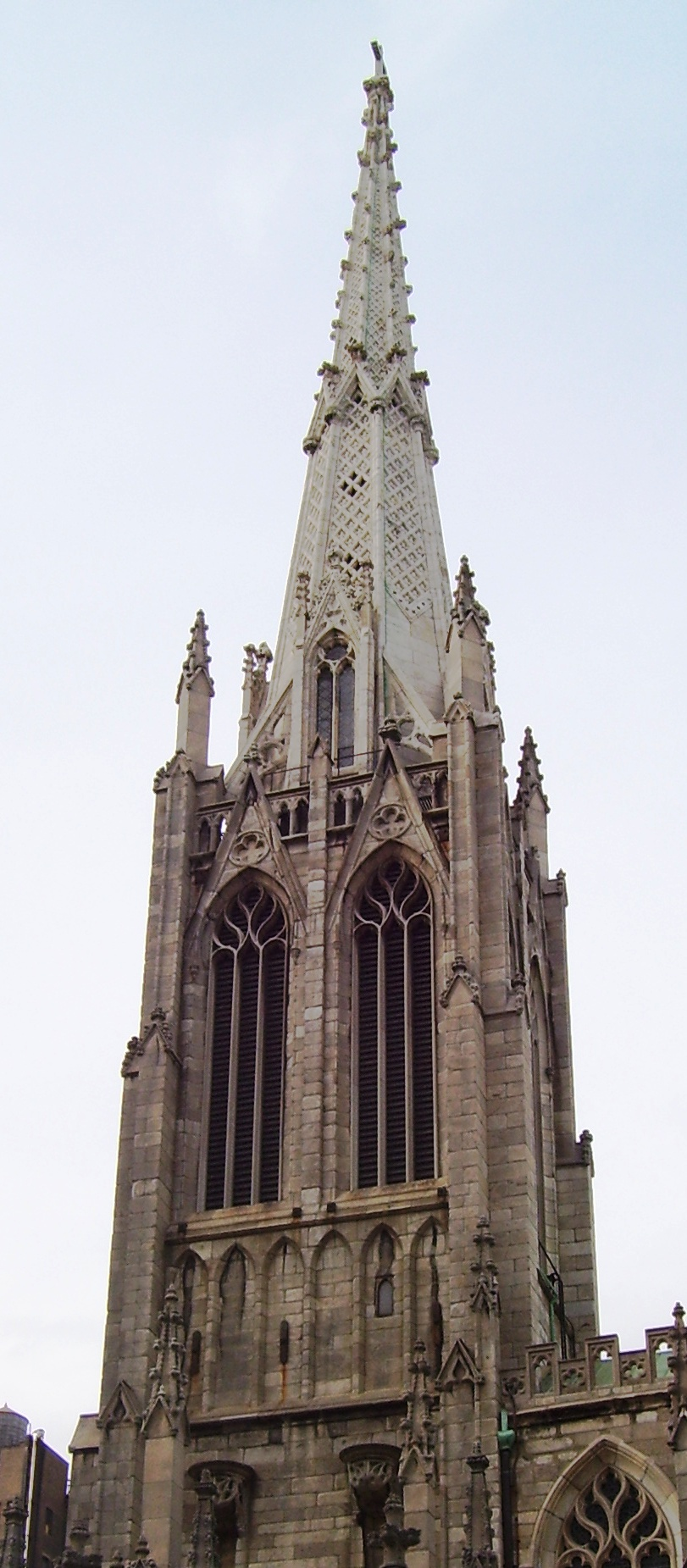 The steeple of Grace Church as seen from East 10th Street in Manhattan, New York City. The church's original wooden spire was replace with the cuurent marble one in 1883.